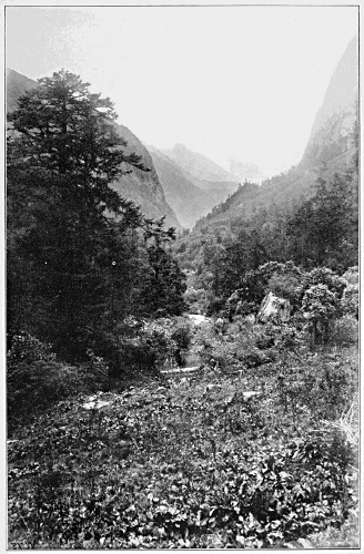 Kama valley, east of everest. Page 118 from Howard-Bury, C. K. (1922). Mount Everest the Reconnaissance, 1921 (1 ed.). New York, Longman & Green